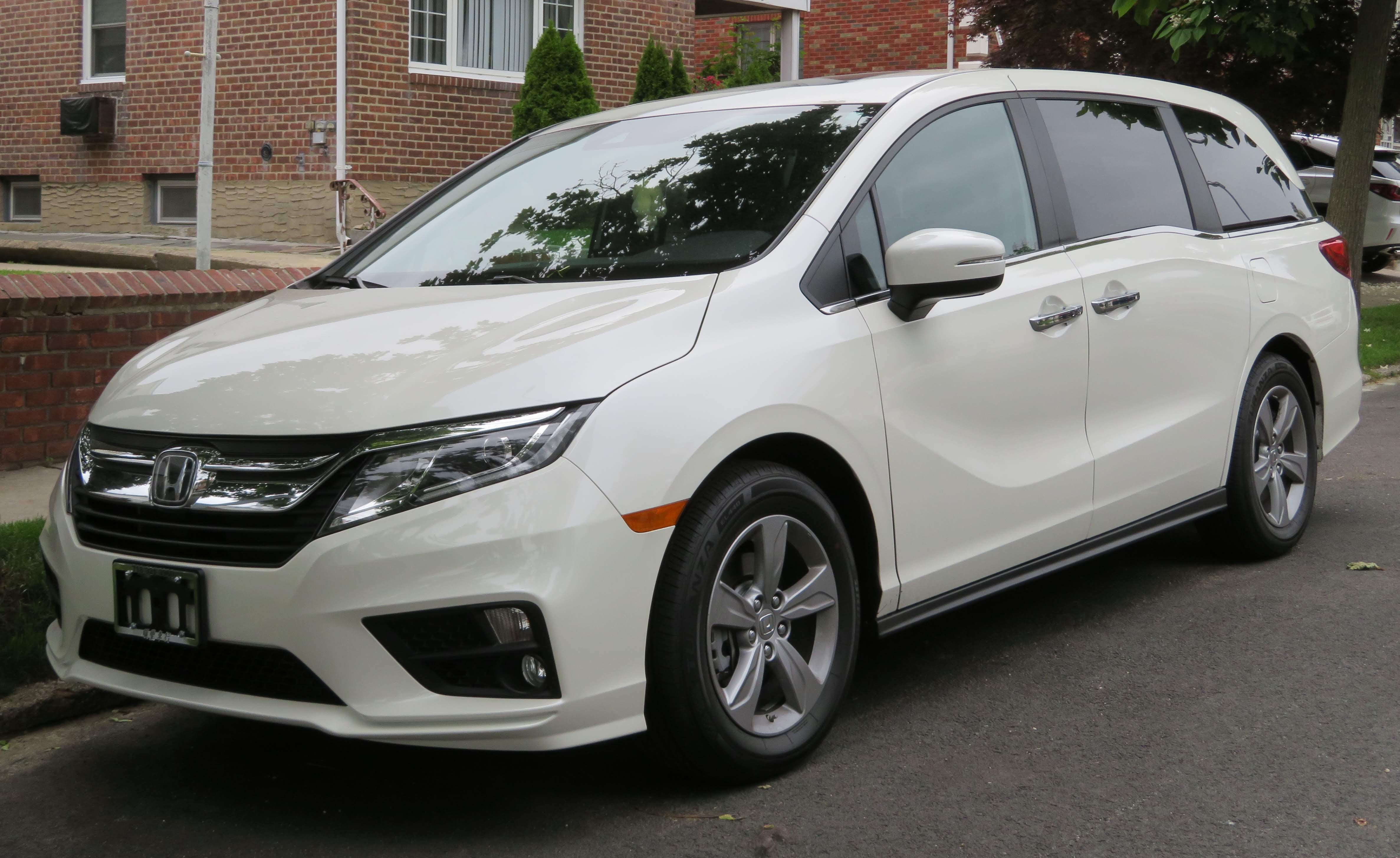 Photographed in Queens, New York